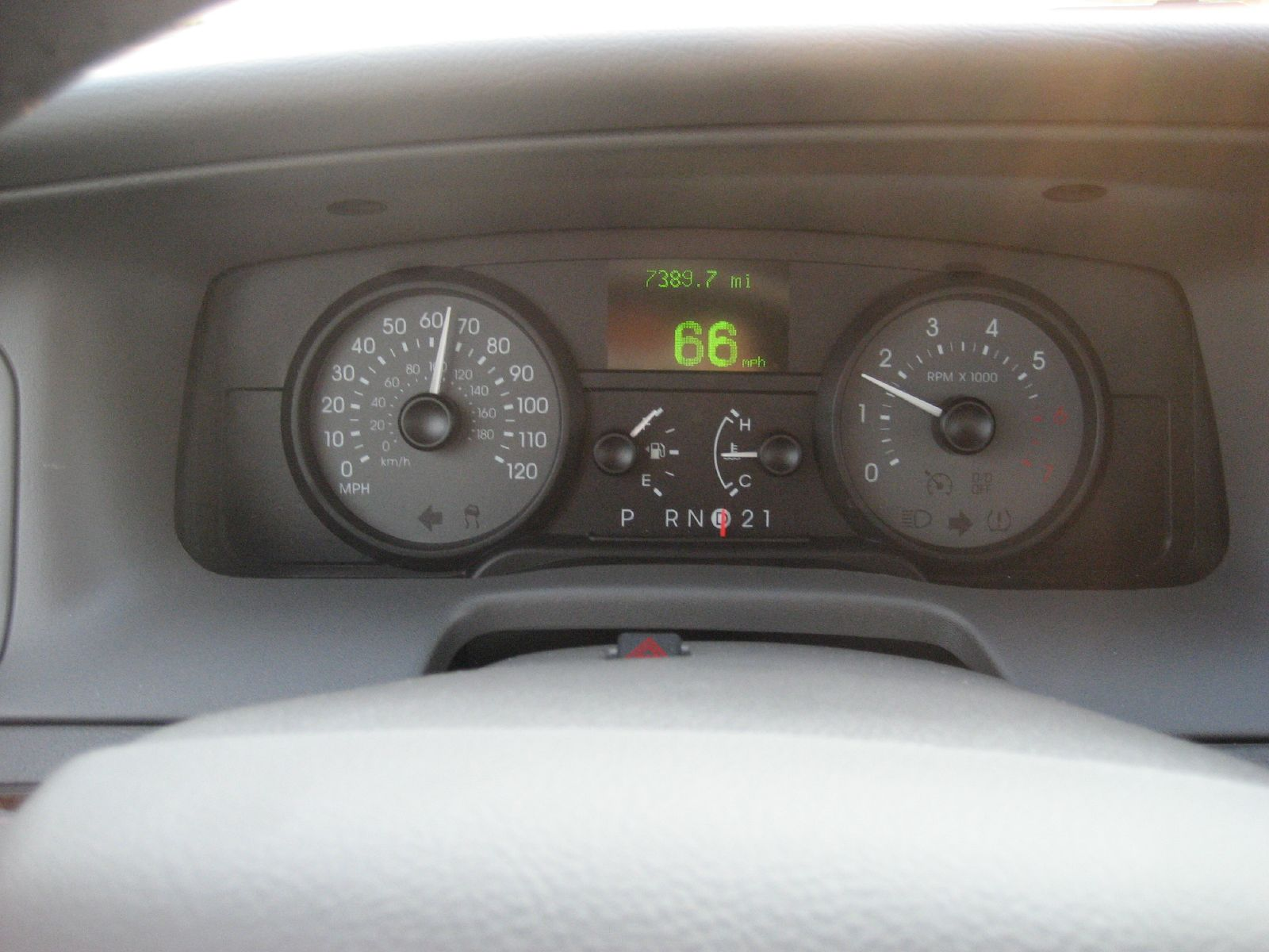 Photograph of the instrument panel of a 2006-2011 Mercury Grand Marquis. In 2006, the Grand Marquis and its Ford Crown Victoria stablemate became some of the very last American-market cars to be fitted with tachometers and digital odometers.